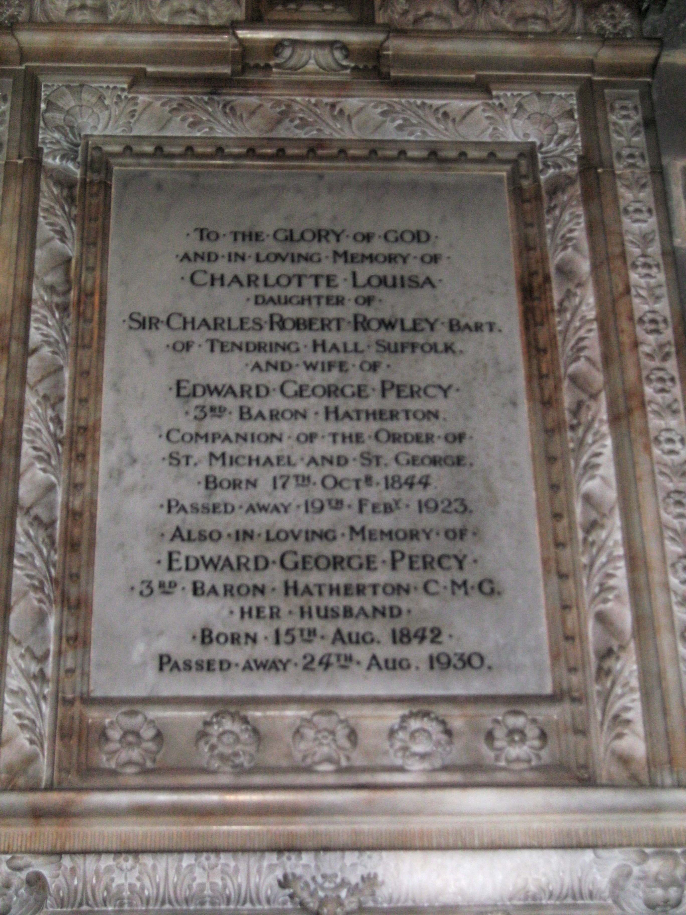 Penkridge, Staffordshire, St. Michael and All Angels Anglican parish church. Memorial to members of the Littleton family, including the 3rd Baron Hatherton. The Percy Christian name came from marriage to the Percy family of the Dukes of Northumberland.